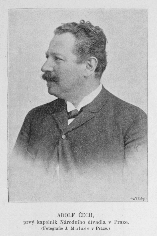 Portrait of Adolf Čech (1841-1903), Czech conductor. Watermarked by printmaker Jan Vilím (1856-1923).